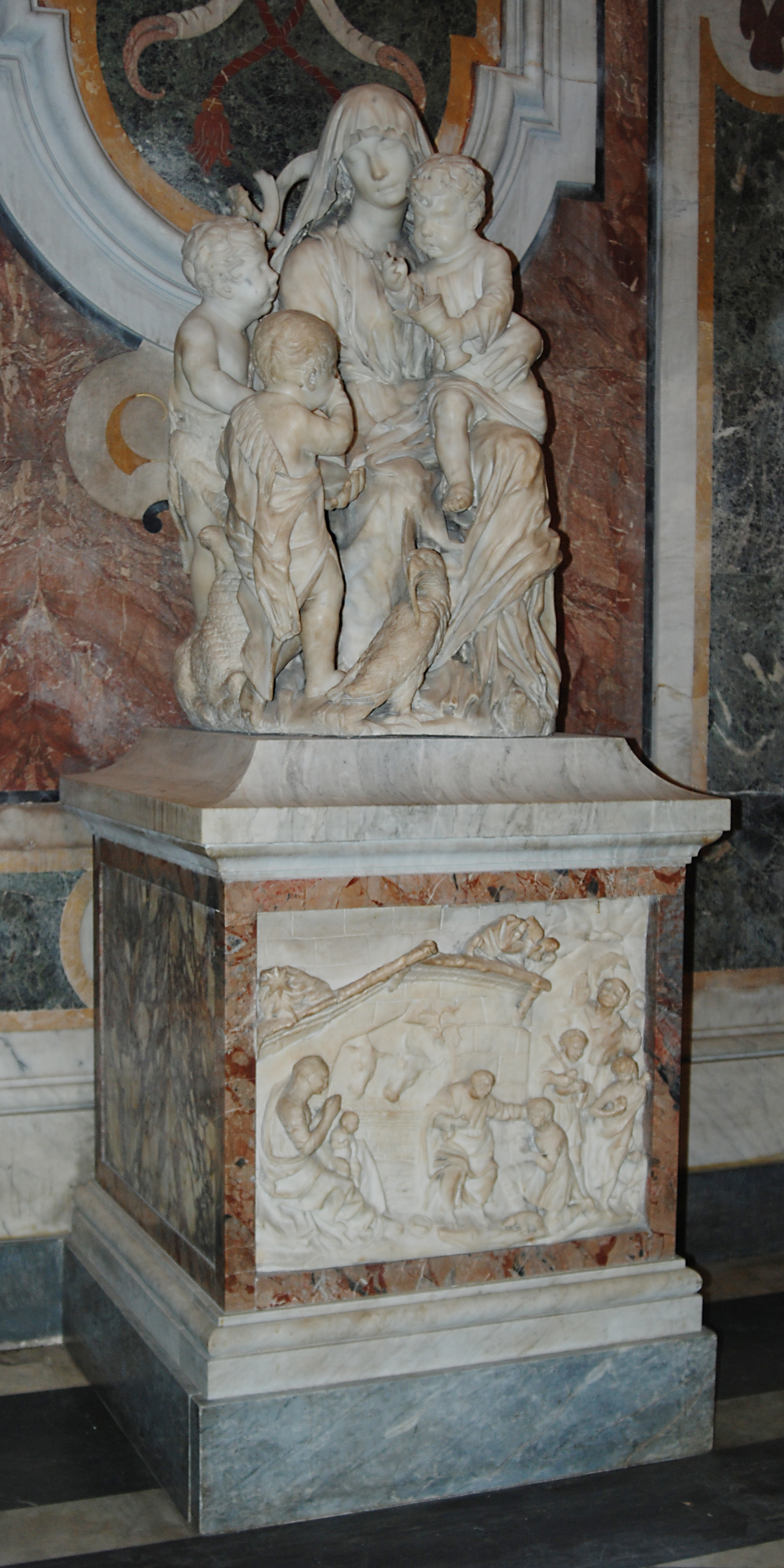 Francesco Grassia "Madonna and Child with Saints John the Baptist and John the Evangelist", 1670 - Roma - Church of Santa Maria Sopra Minerva